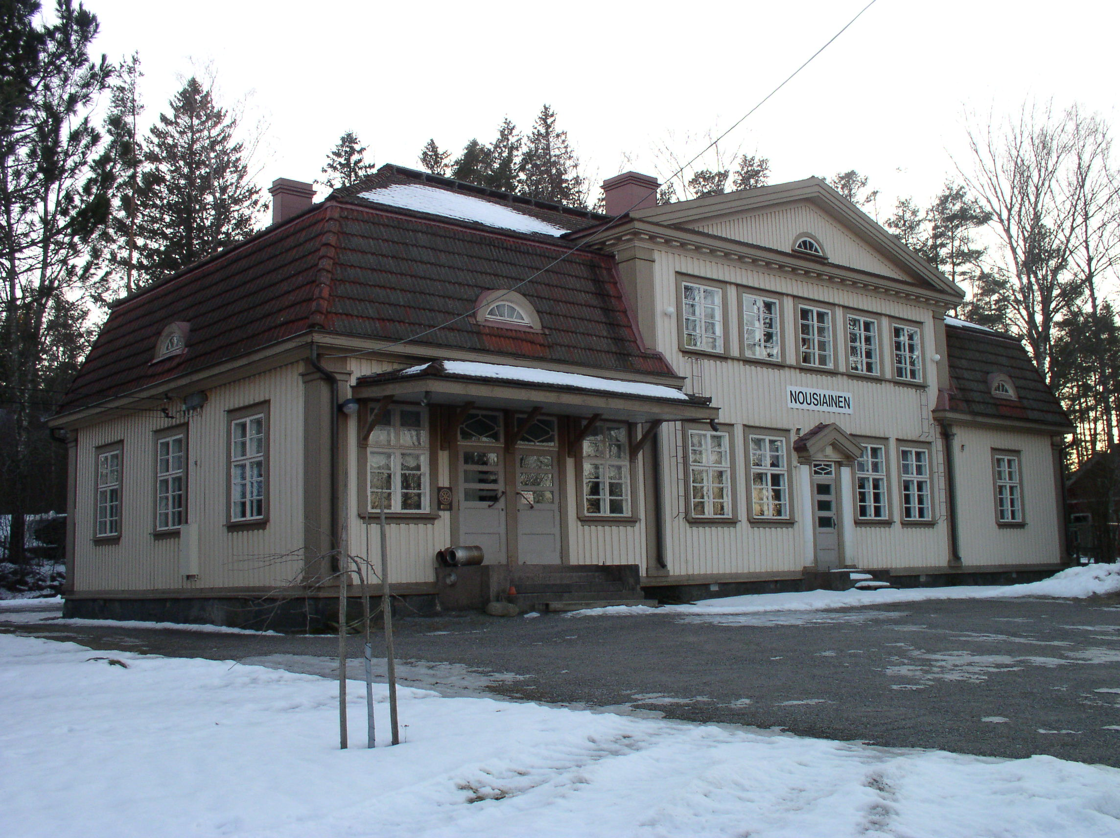 Nousiainen railway station in Nousiainen, Finland.